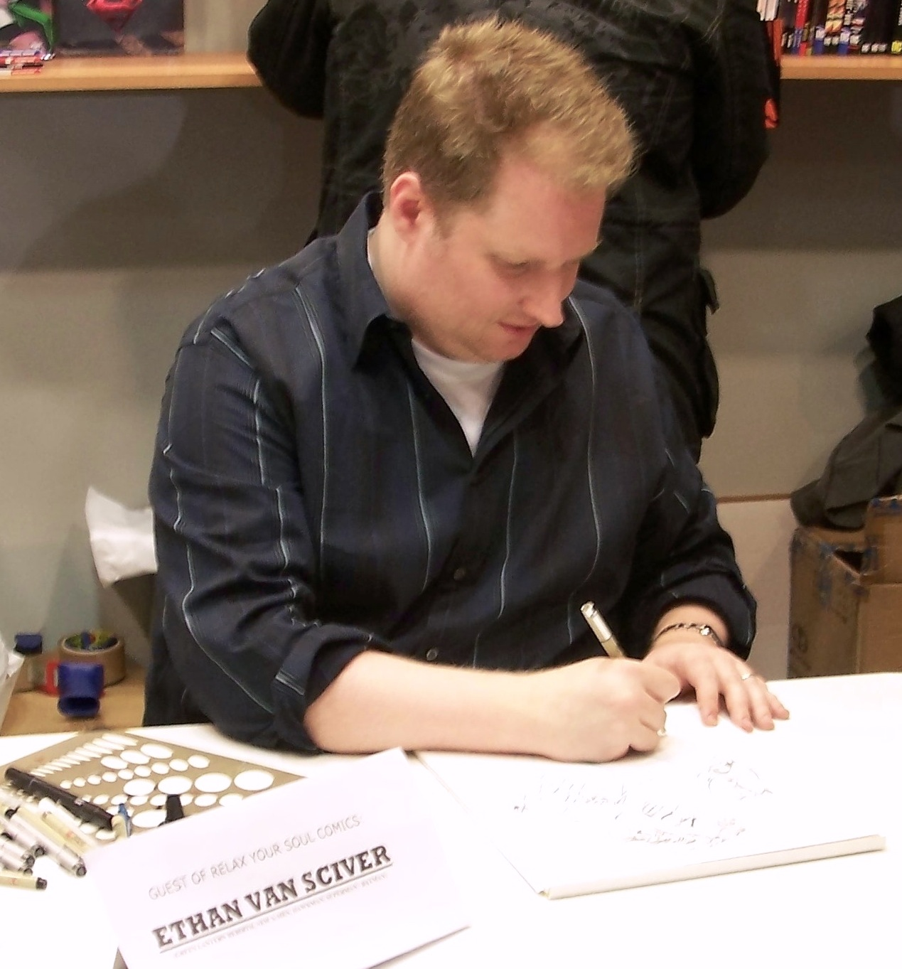 American comic artist Ethan Van Sciver at Comicdom comics festival, Athens, Greece, 2007